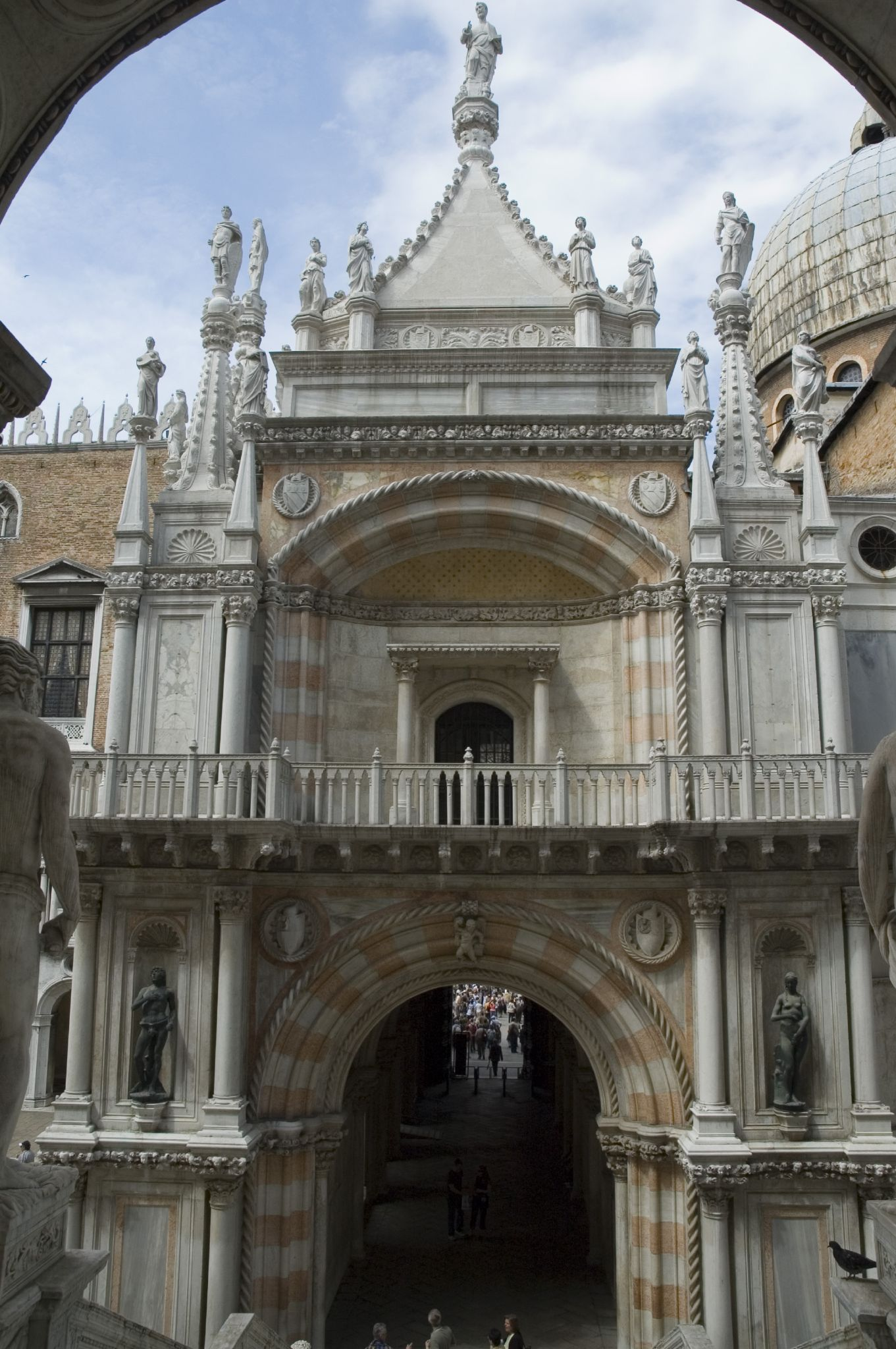 see above